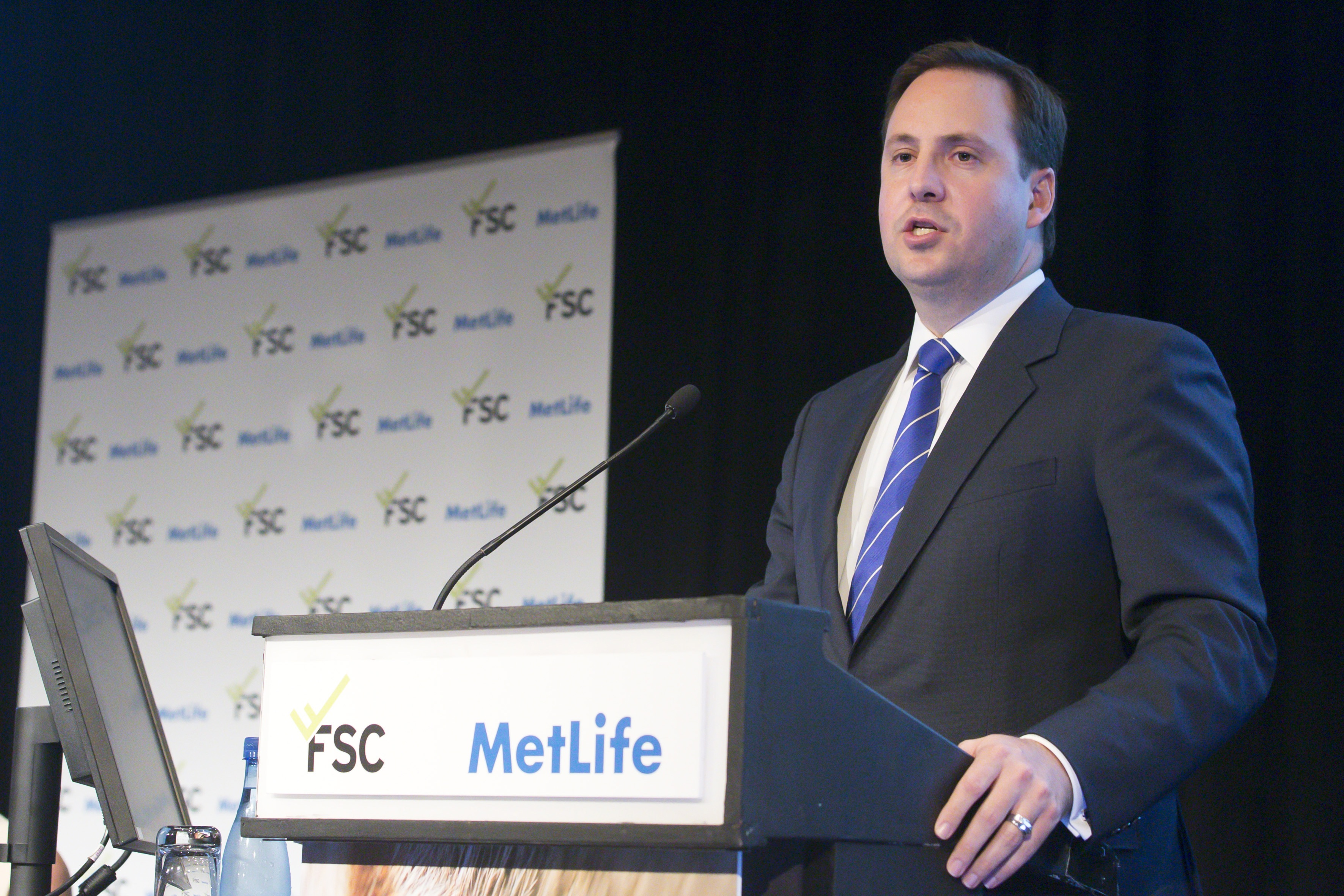 Australian Parliamentary Secretary to the Treasurer, The Hon Steven Ciobo MP, addressing the Financial Services Council Life Insurance Conference in Sydney on 3 April 2014.